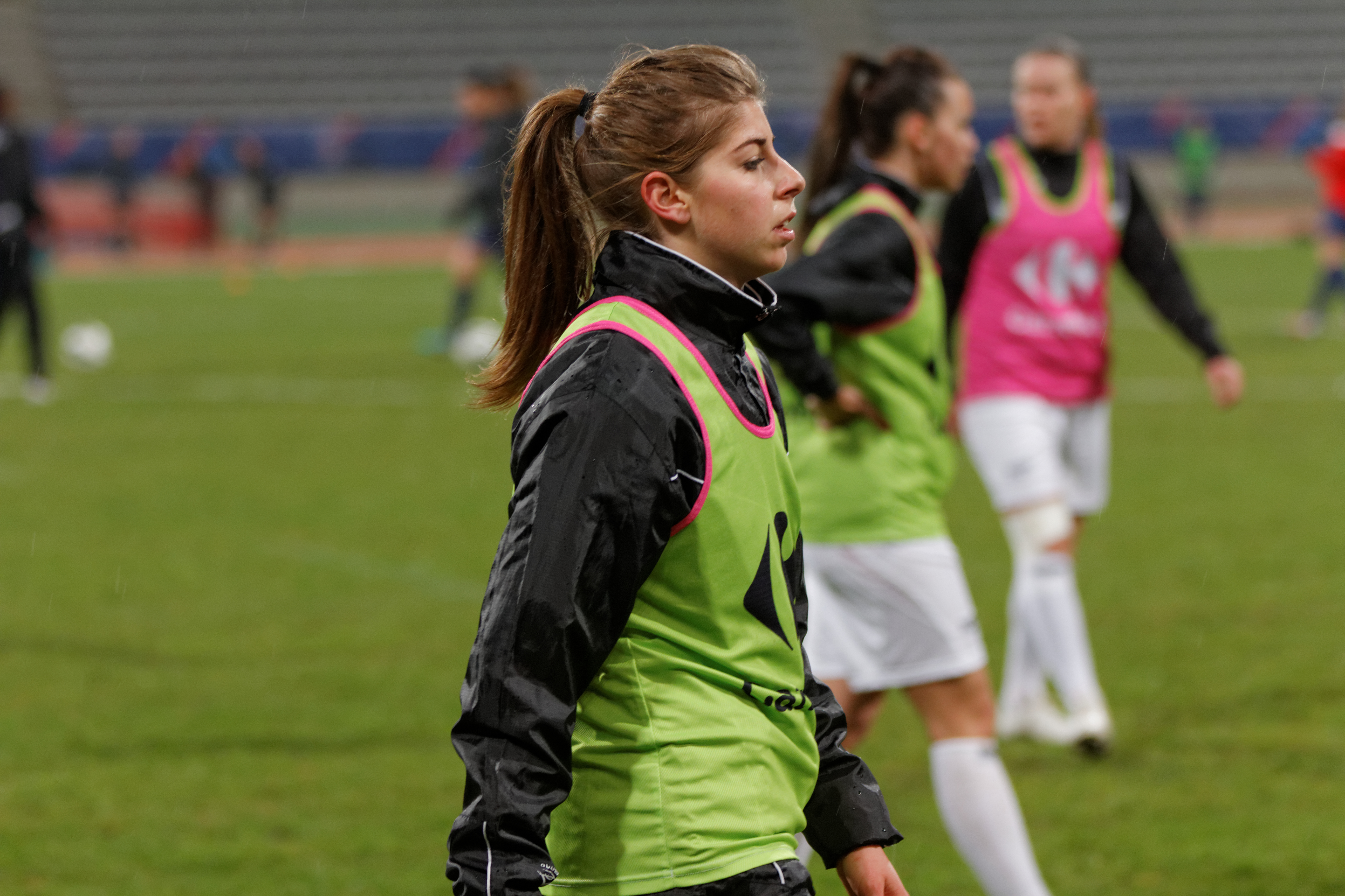 PSG-Juvisy, March 23th, 2013.